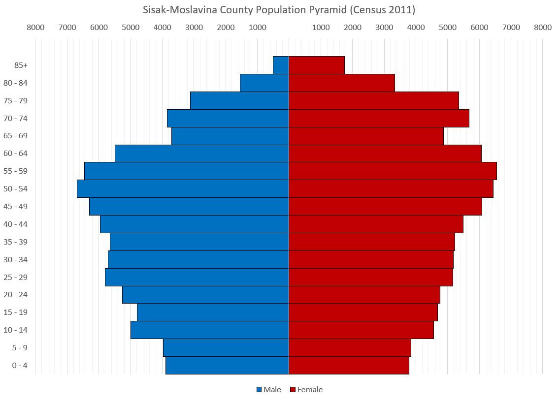 Population pyramid of Sisak-Moslavina County. Version in English. Data from 2011 Census; available at